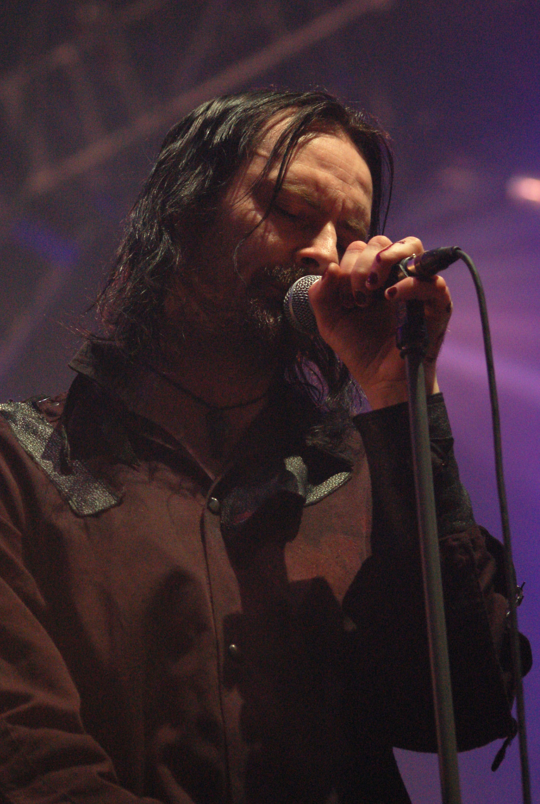 Aaron Stainthorpe from My Dying Bride during Metalmania 2007 festival